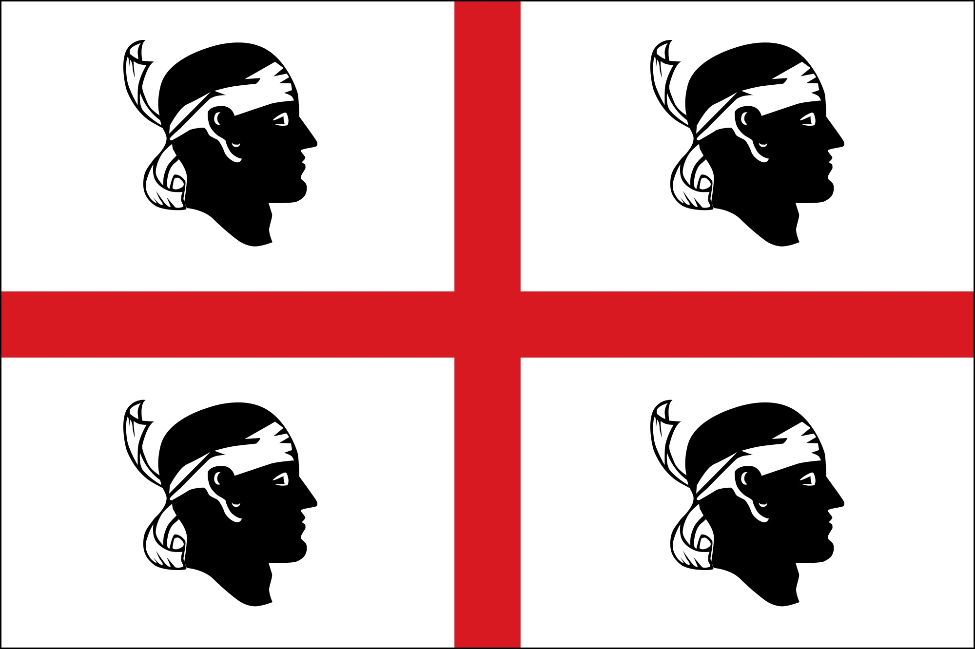 Flag of autonomous region of Sardinia, Sardinia Island.